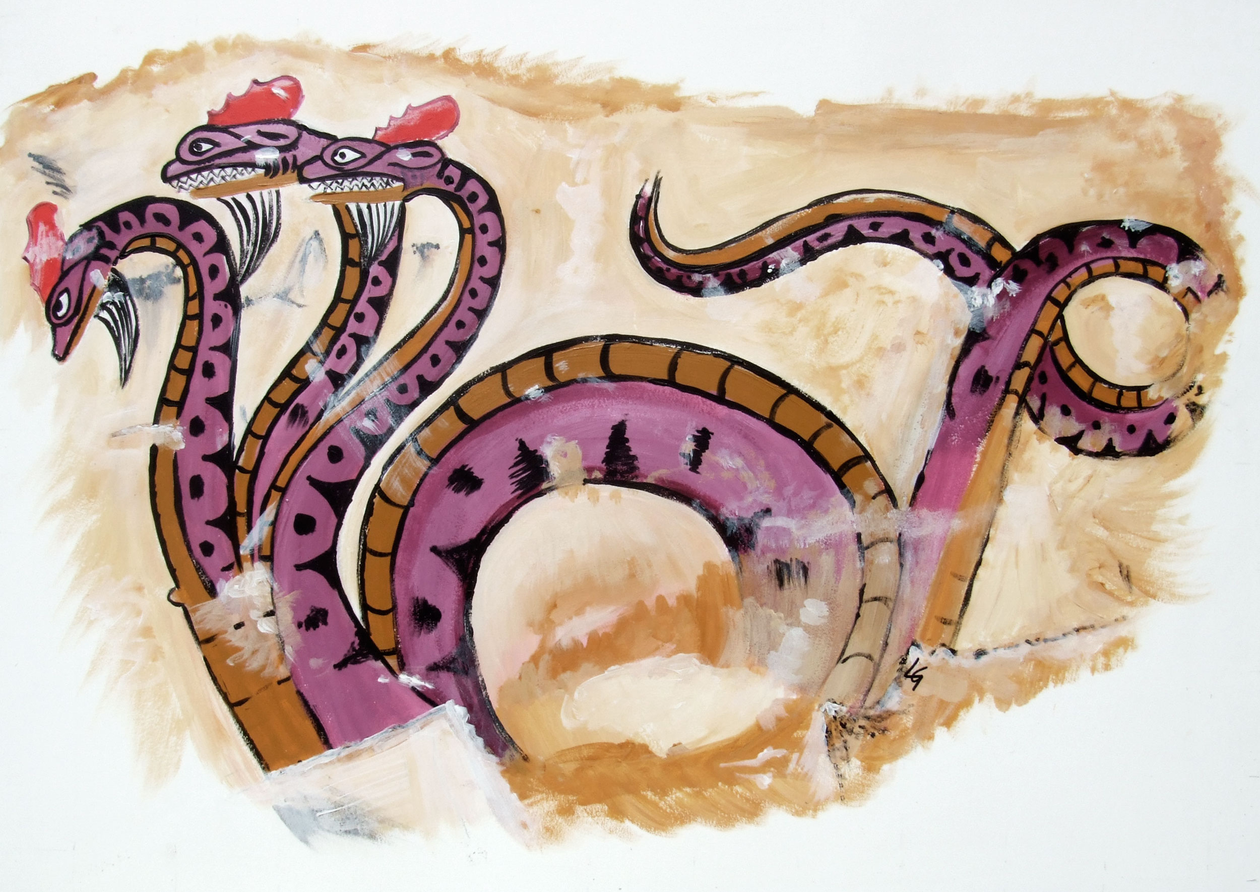 My sketch for Tomba della quadriga infernale.